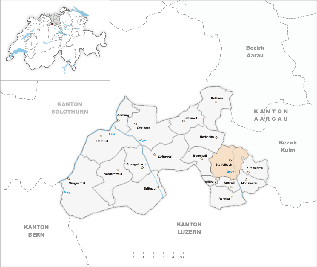 Municipality Staffelbach